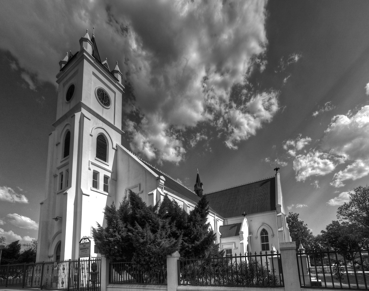 Nederduitse Gereformeerde Mother Church, Hefer Street, Parys This media shows a South African Protected Site with SAHRA file reference 9/2/329/0007.